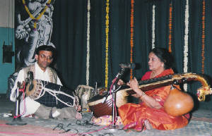 Renknowned Vainika Vidwan and prime disciple of Veenai Visalakshi, Mangalam Muthuswami at a concert